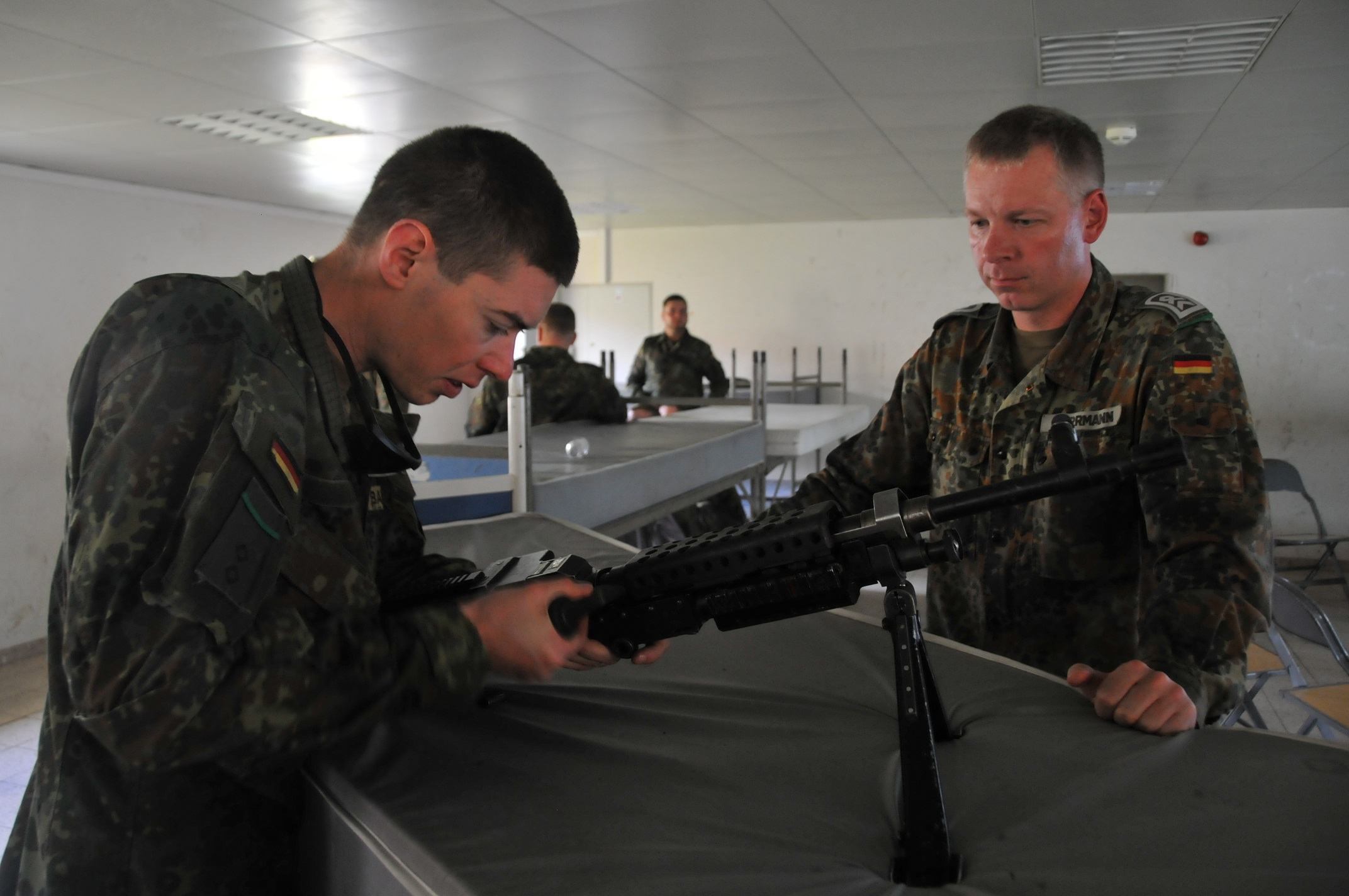 German 1st. Lt. Sven Bartelt (left) and Sgt. Maj. Bjoern Herrmann practice disassembling and reassembling a U.S. M240B machine gun during an Operational Mentor Liaison Team training exercise at U.S. Army Europe's Joint Multinational Readiness Center in Hohenfels, Germany, May 11. OMLT and Police OMLT training are designed to prepare teams for deployment to Afghanistan to train, advise and enable Afghan forces in areas such as counterinsurgency, combat advisory and force enabling support operations. (Photo by Pfc. Jordan Fuller)